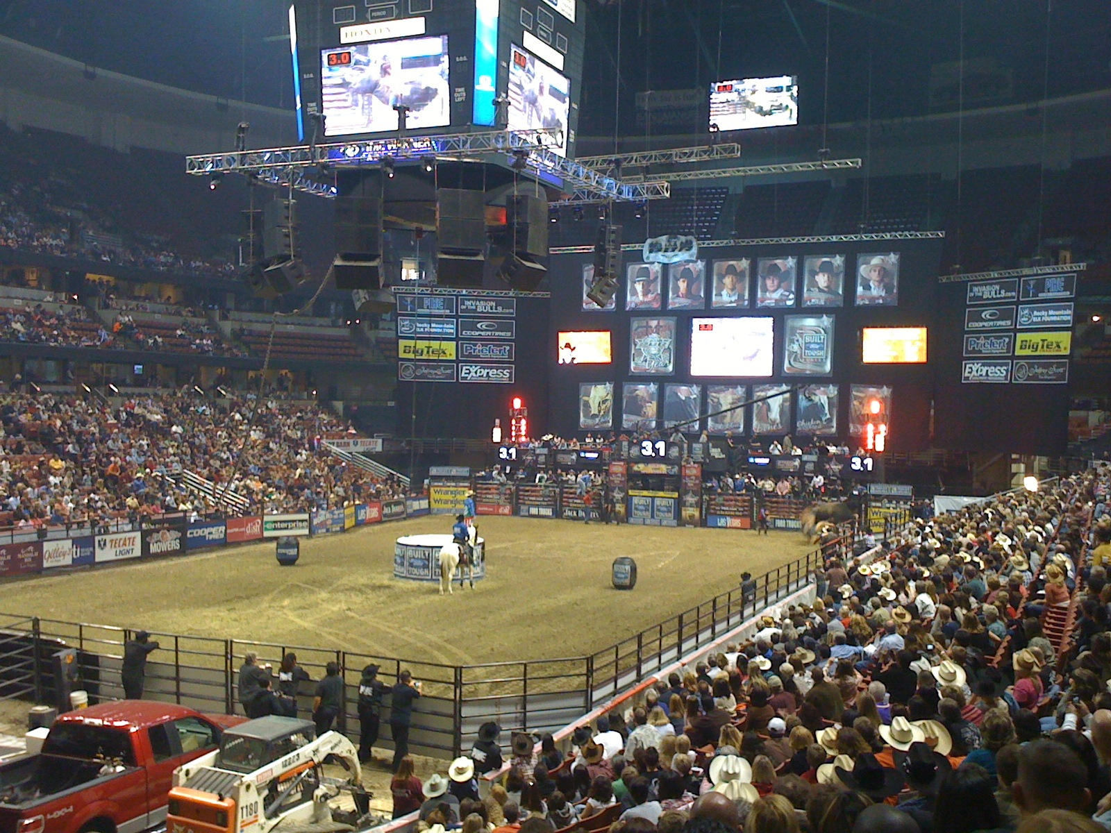 January 24th, 2010.